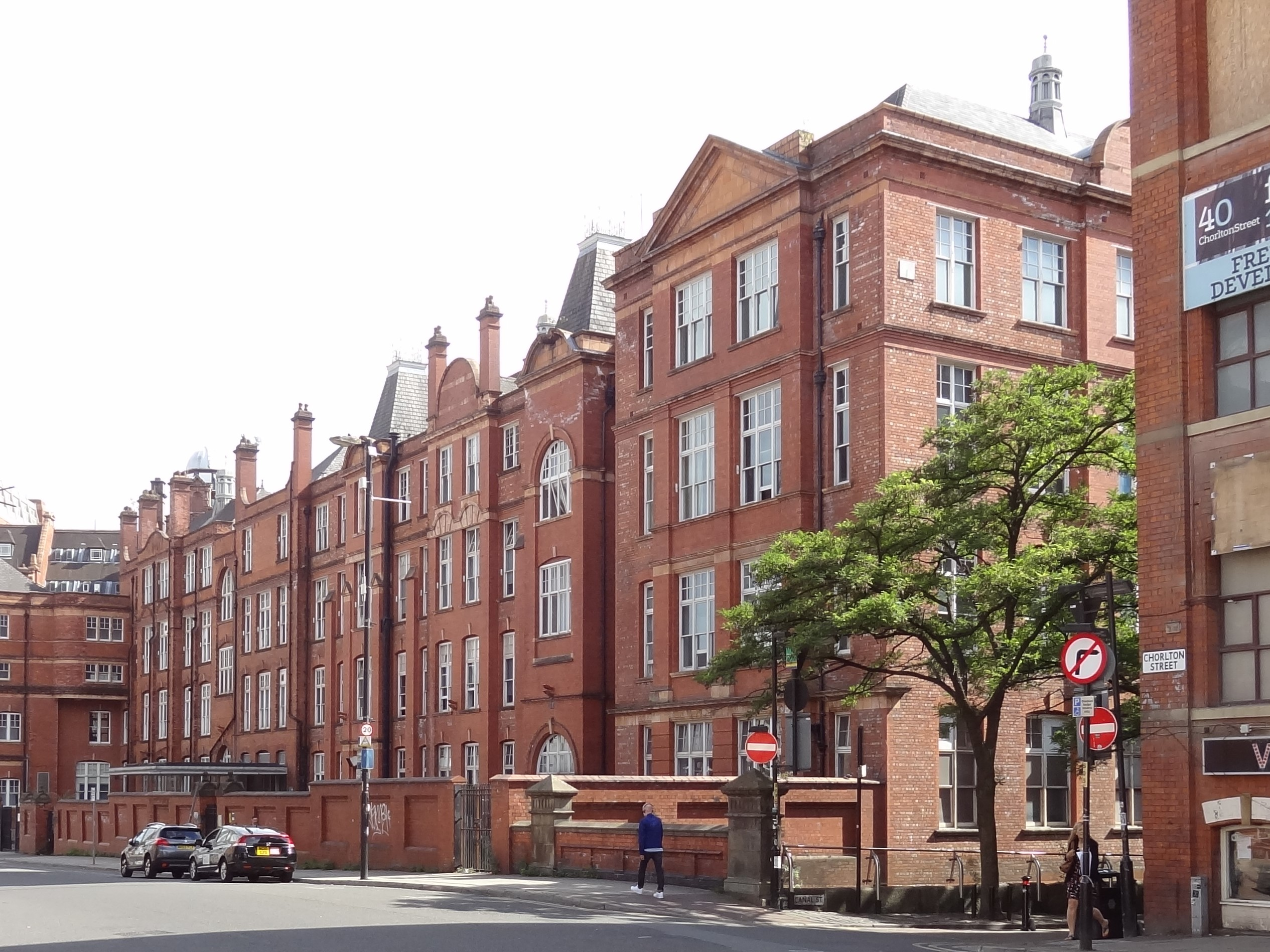 The Shena Simon 6th Form College